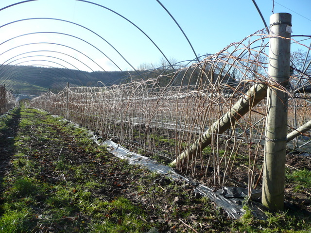 Pruned and trained raspberries The plastic is put back on in early spring to advance the crop.